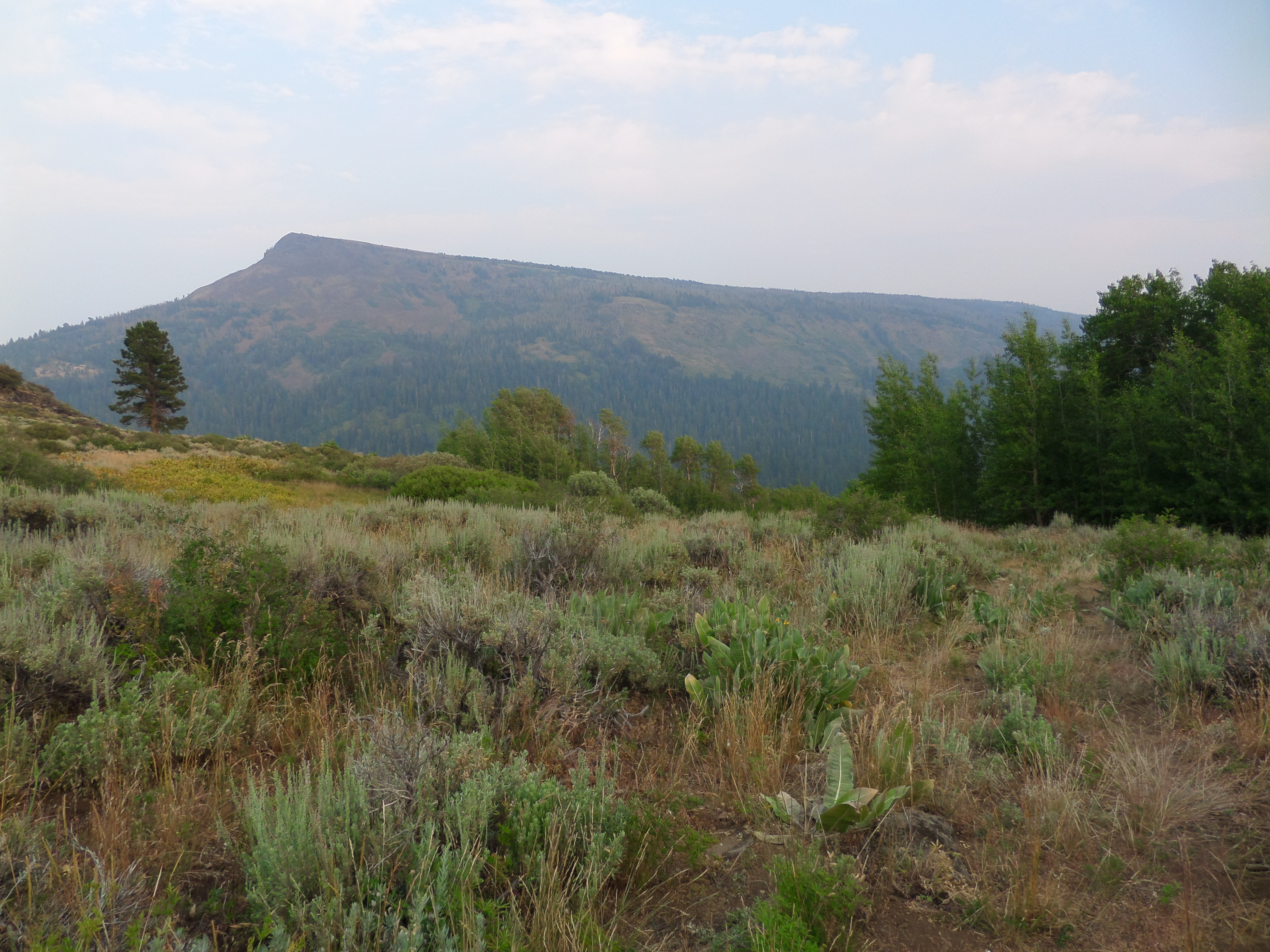 Hat Mountain in Lassen County, looking south. July 2018.